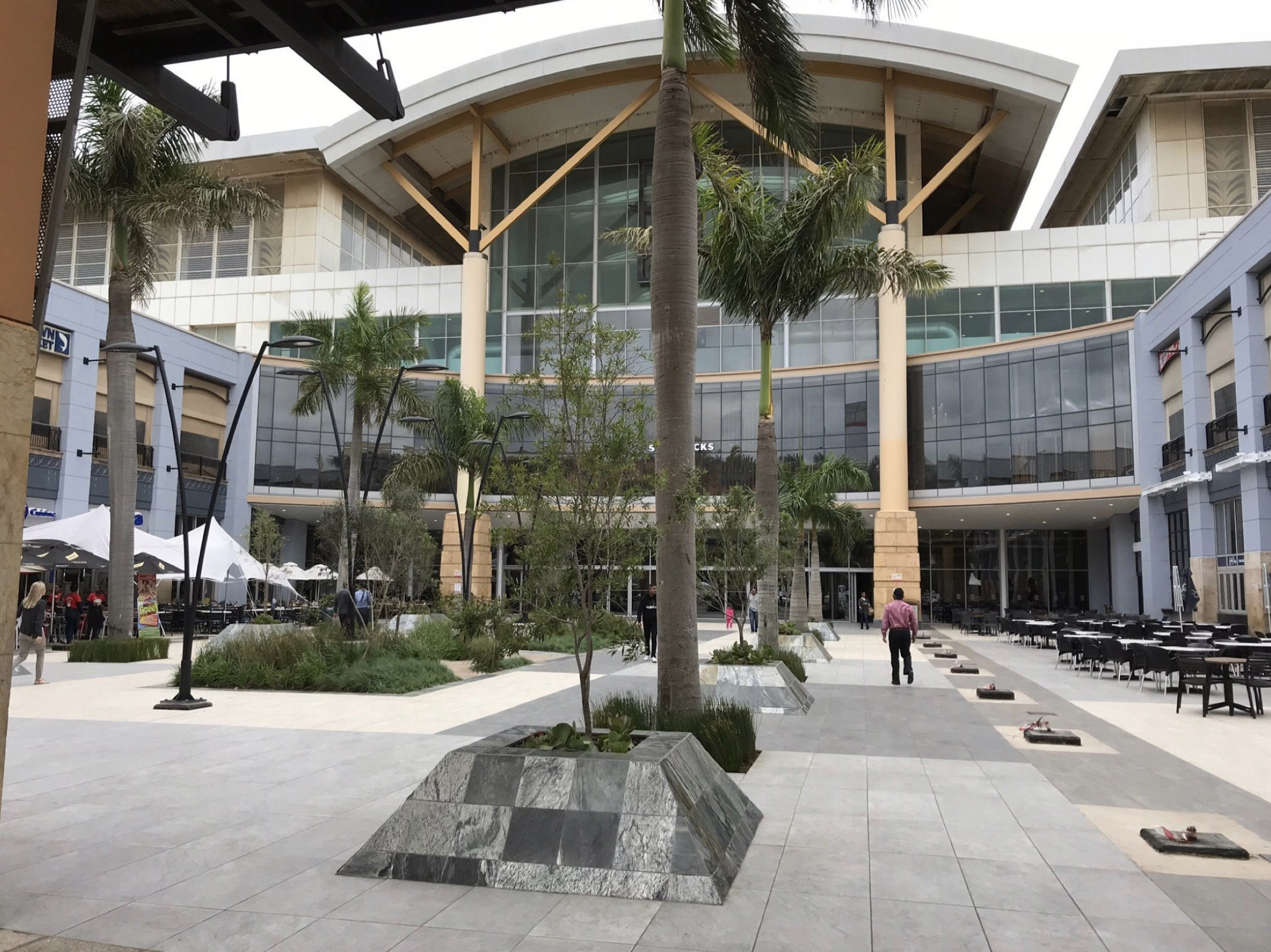 This is a photo of the courtyard at the back of Gateway Theatre of Shopping, in Umhlanga, Durban, KwaZulu-Natal, South Africa. It was taken in October 2018.